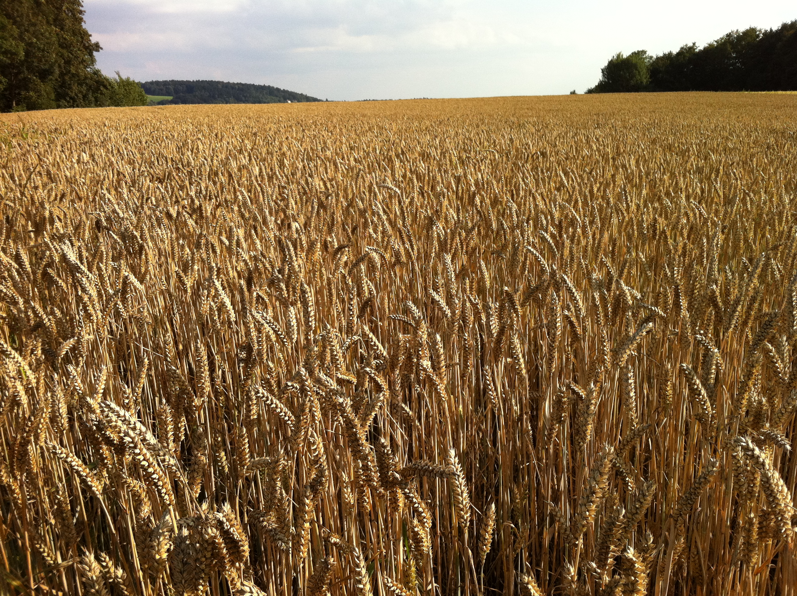 A field of wheat in Deggendorf, Germany